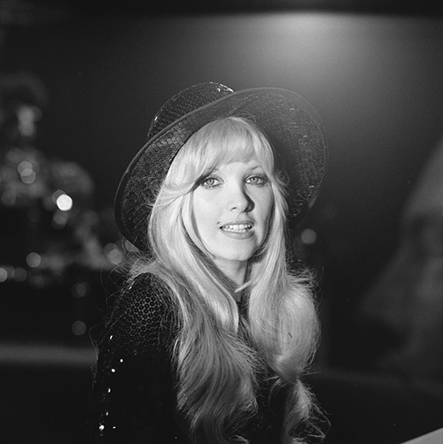 Lynsey De Paul in AVRO's TopPop (Dutch television show) in 1974